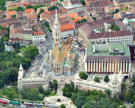 Fisherman's Bastion, Budapest, Buda Castle, Hungary, aerial photography